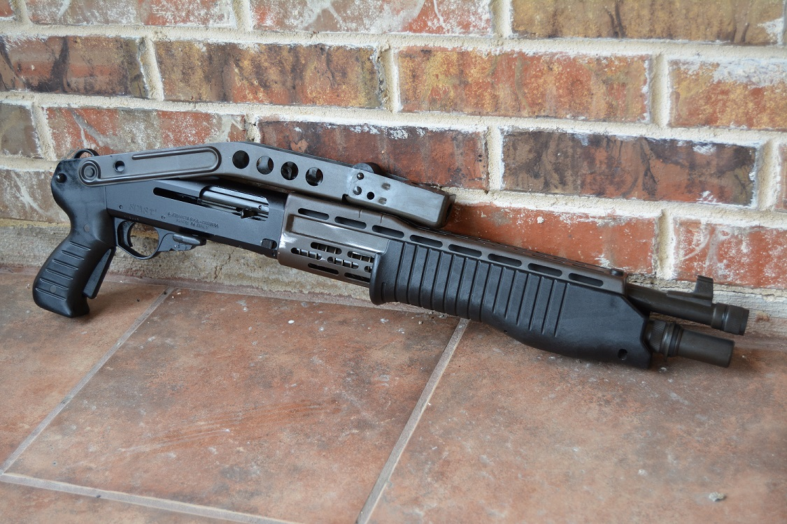 Photograph is of a SPAS 12 believed to be one of only two examples in the United States to have a pistol grip safety.